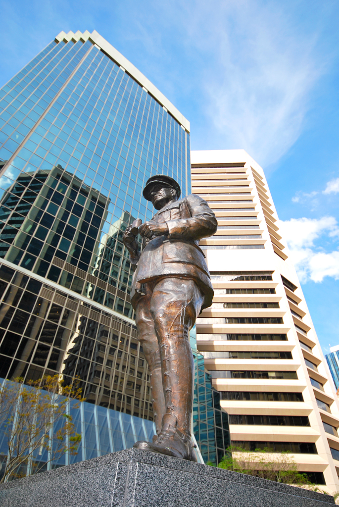 Location: Post Office Square, Brisbane Artist: Daphne Mayo Materials: Bronze with marble plinth Installation date: 1966